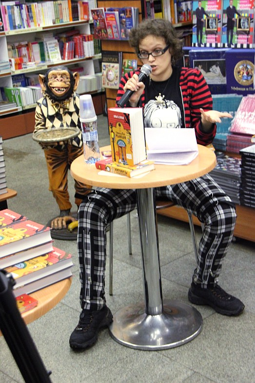 Olga Lucas, Russian writer